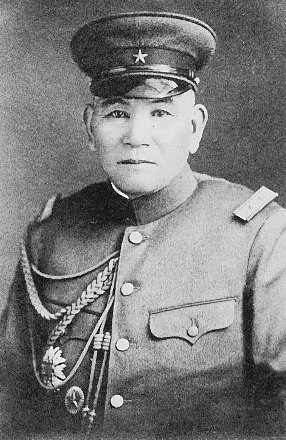 General Jinzaburo Masaki (1876-1956)